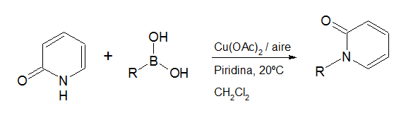 Cham Lam coupling